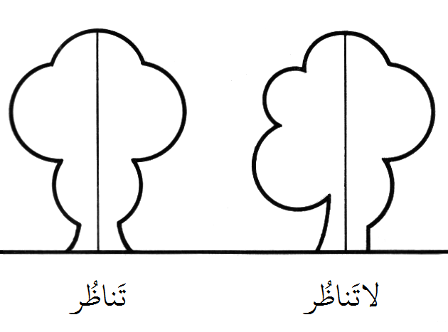 Arabic version of Symmetry vs Antisymmetry